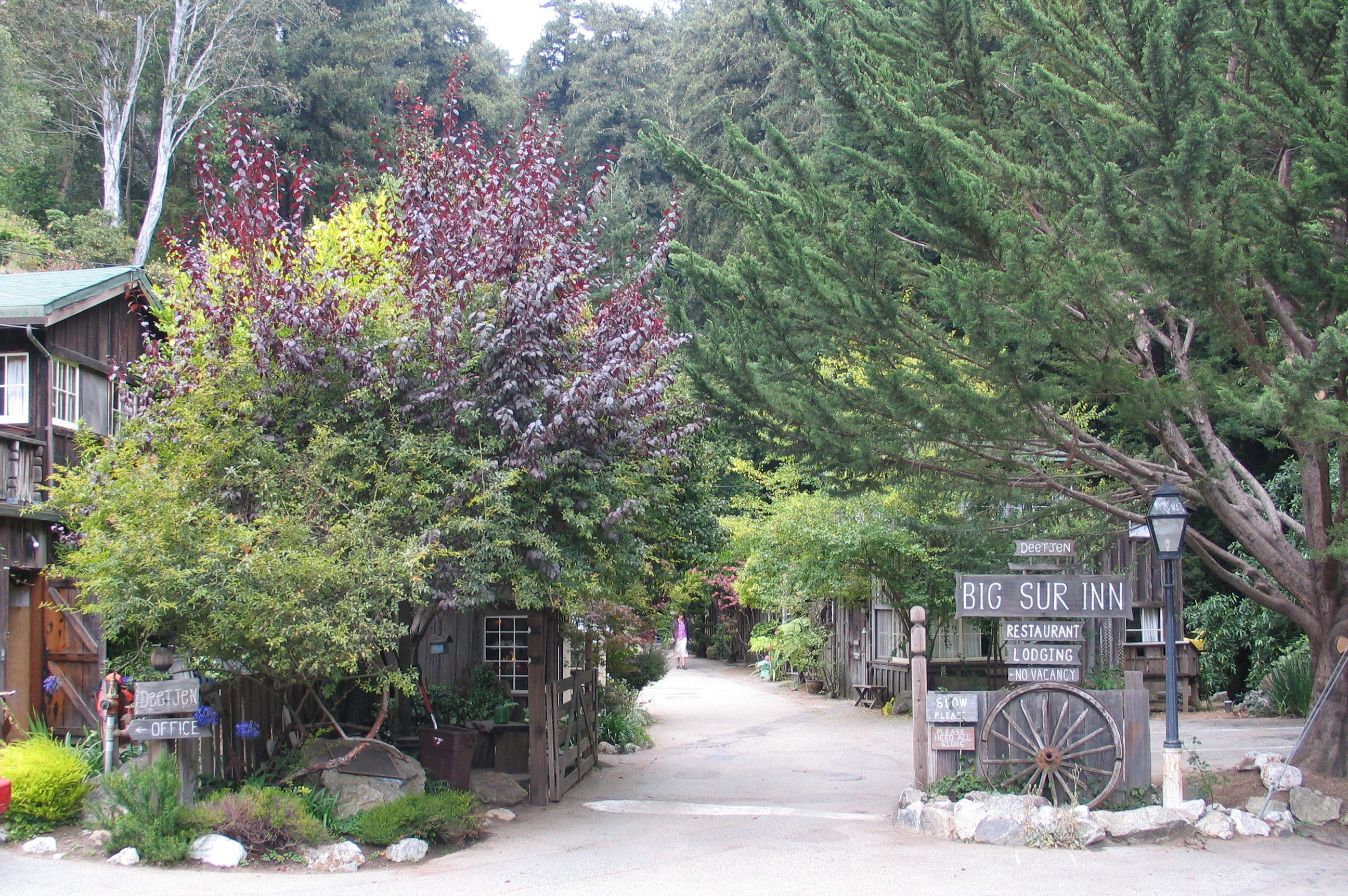 Deetjen was a Norwegian immigrant who built this place in the 1930s. It's now a non-profit historic landmark.